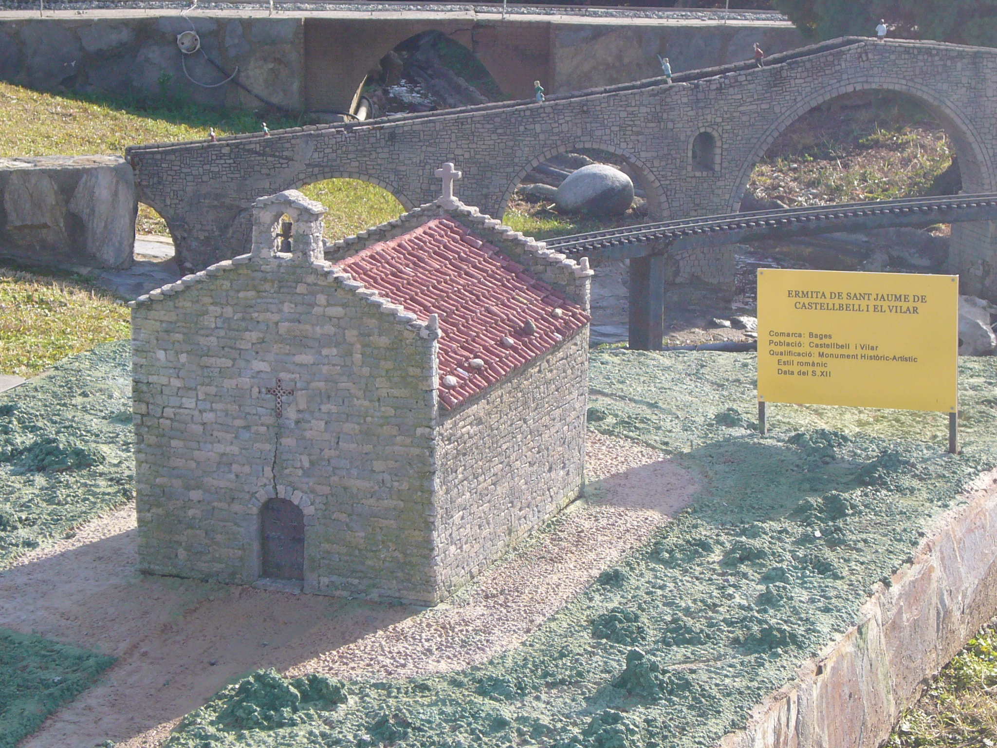 Scale model at the "Catalunya en Miniatura" miniature park : Church of Sant Jaume (Castellbell i el Vilar)